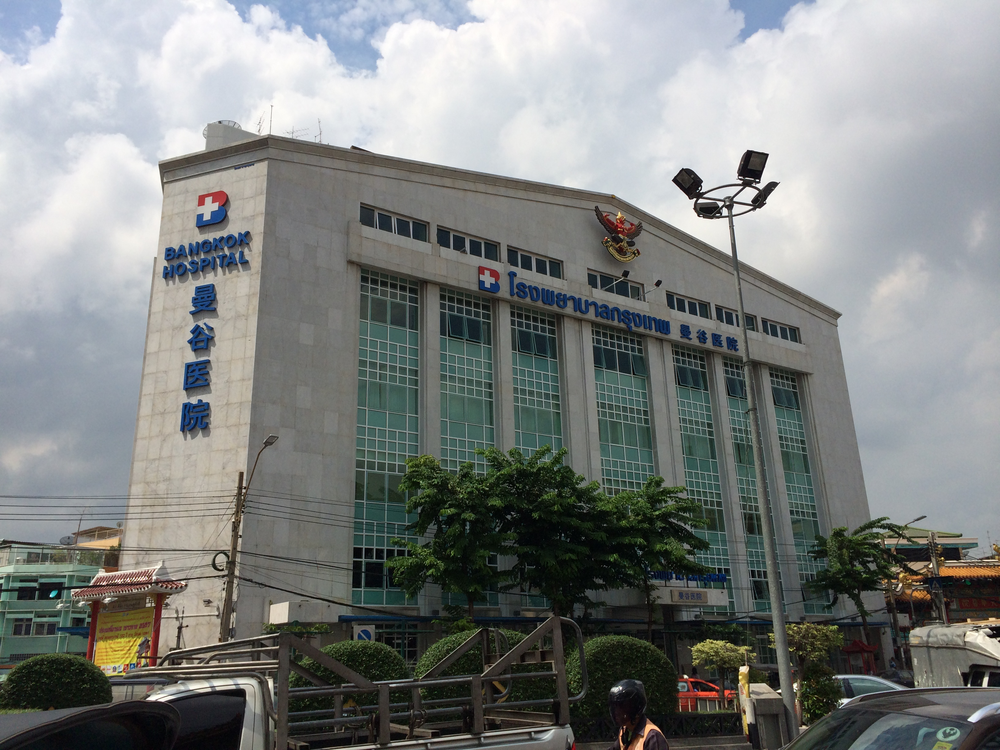 Image from the Hua Lamphong area, middle stretches of Charoen Krung road district, Bangkok.